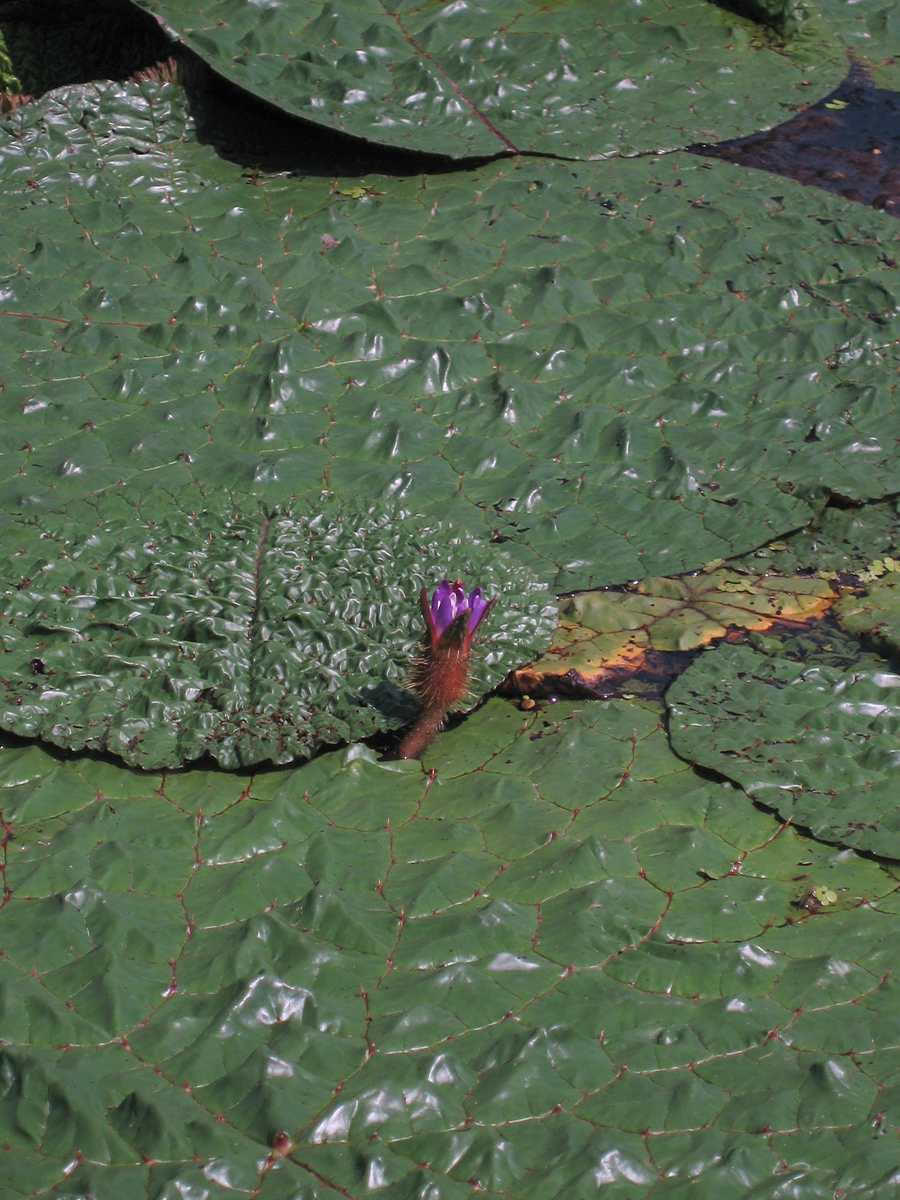 Chasmogamous flower of Euryale ferox I took this image at Aqua World Suigo Park Center, Kaizu, Gifu, Japan.